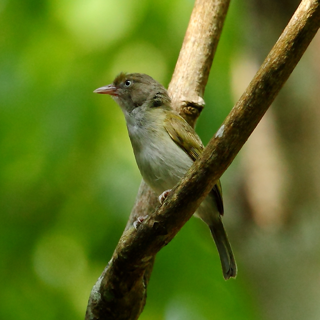 Grey-chested Grenlet at Iranduba - AM - Brazil